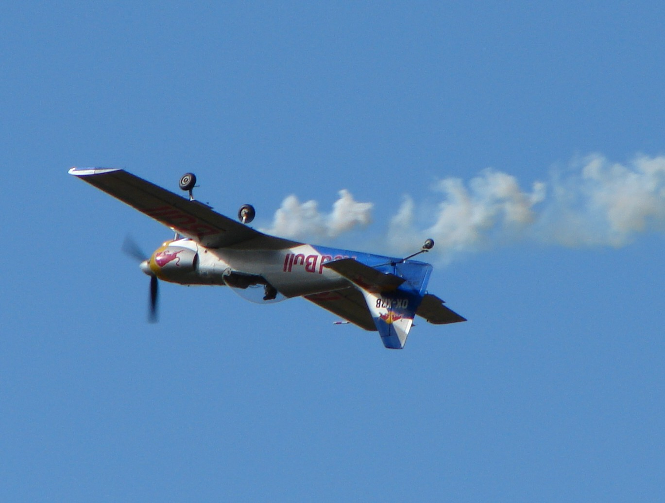 Flying Bulls Aerobatics Team during an Air Show in Krems, Austria